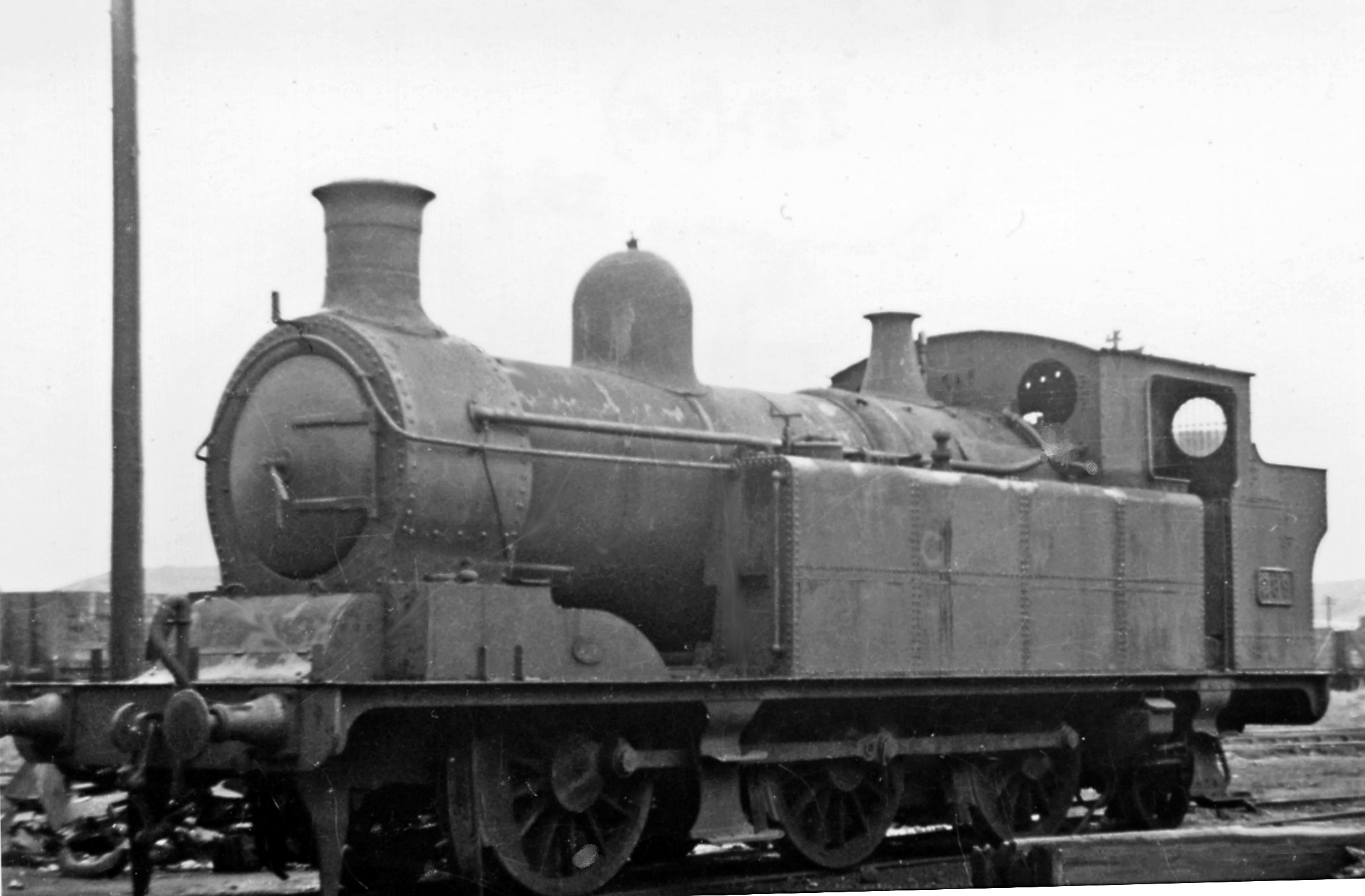 Ex-Taff Vale 0-6-2T in Locomotive Yard at Danygraig Locomotive Depot, Swansea Docks. Danygraig was the Depot in Swansea of the Rhondda & Swansea Bay Railway, absorbed by the GWR in 1922. Taff Vale 'O4' No. 289 was built in 7/08 and withdrawn in 8/49, being one of the few 'absorbed' engines that were not reboilered by the GWR.